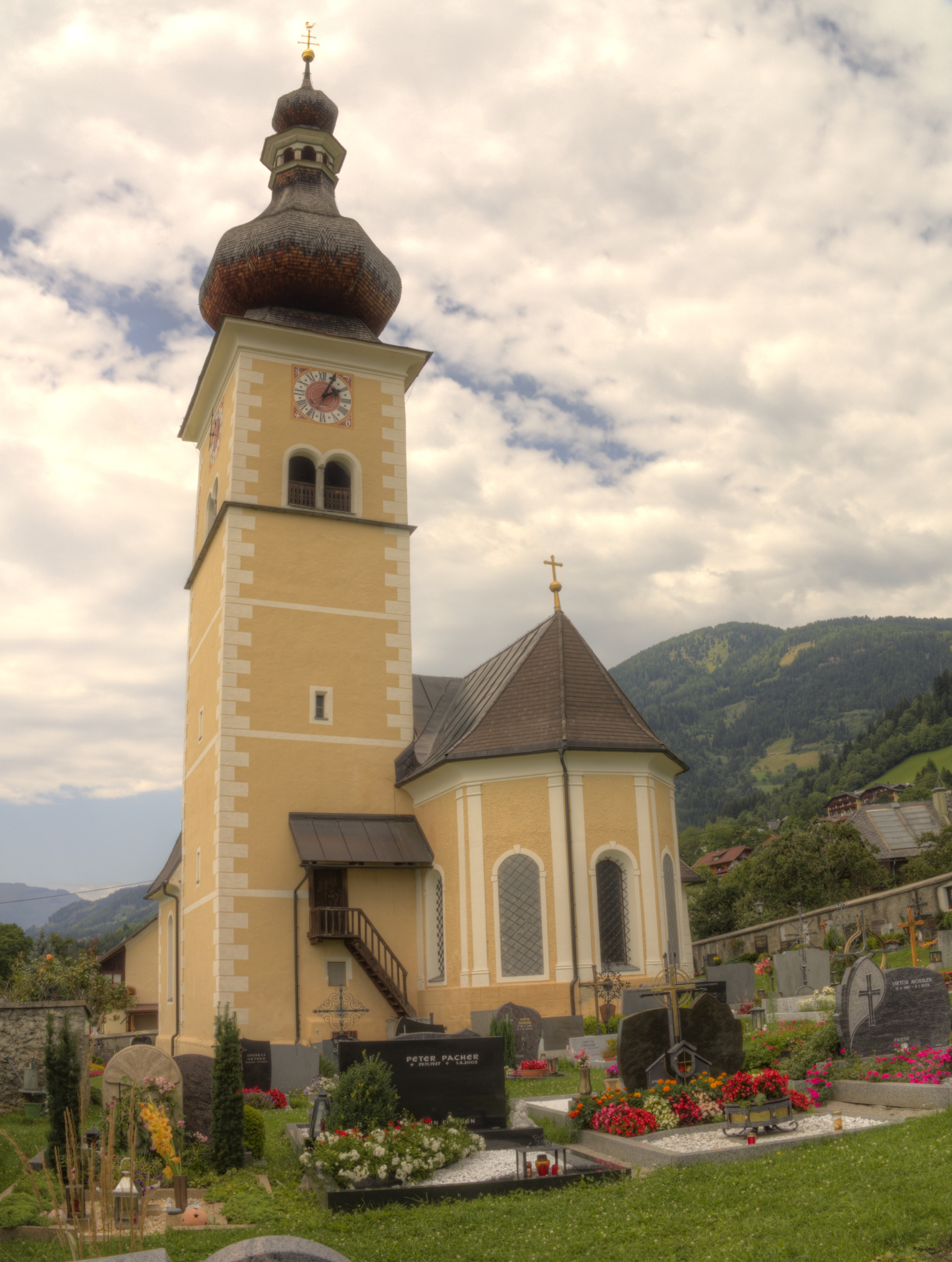 Church in Obermillstatt near Lake Millstatt (Millstätter See), district Spittal an der Drau in Carinthia, Austria / European Union. View to the northwest. Shot in summer 2012. In the foreground of the photo is the cemetery. Access to the tower is via a wooden staircase. Behind the cemetery wall, the village can be seen.